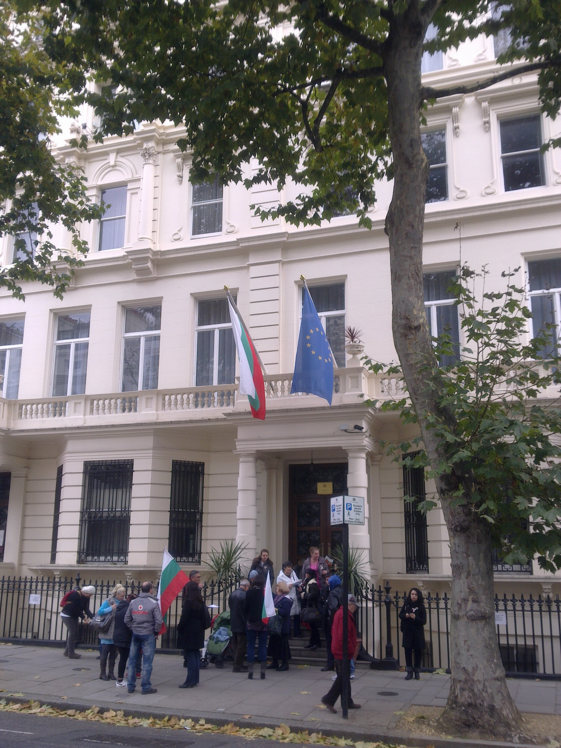 Embassy of Bulgaria in London